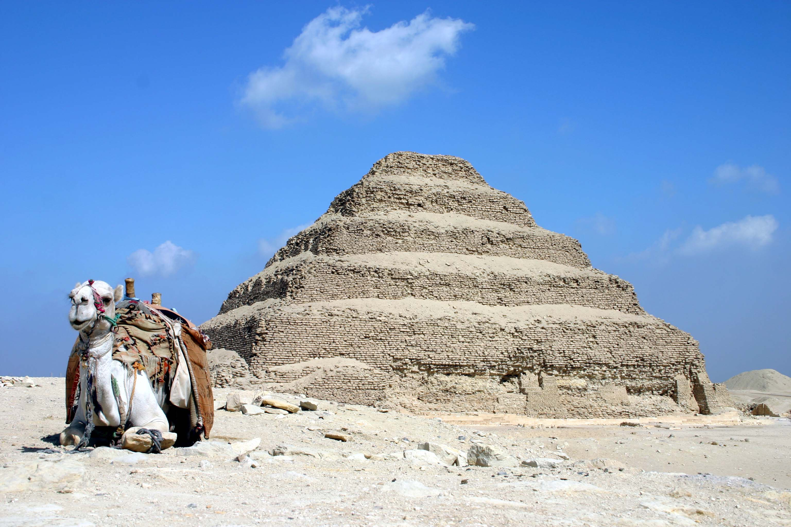 The stepped pyramid at Saqqara